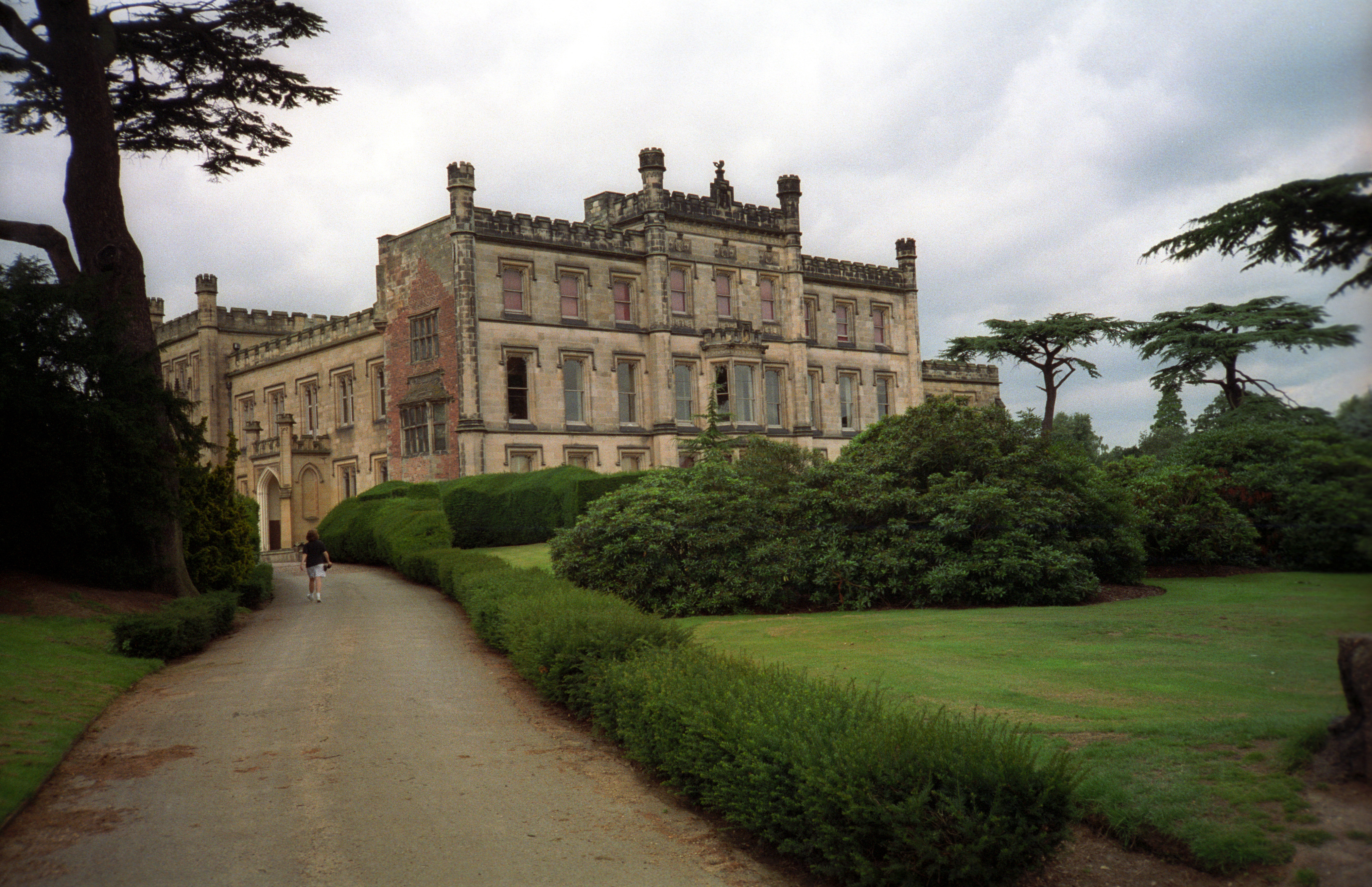 Near Derby. We stopped here (and changed clothes) on the way to Jeremy & Fiona's wedding.